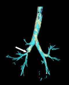 Modified from Image:Followup after tracheobronchial tear.jpg. Bronchial stenosis after surgery in a patient with complete disruption of the right bronchus. Caption reads, "Computed tomography scan performed 2 weeks following surgery... The three-dimensional reconstruction of the tracheobronchial tree, however, demonstrates a bronchial stenosis (white arrow) at the site of surgical repair."